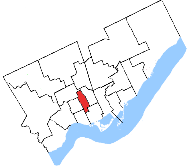 Map of the Trinity electoral district showing its borders from 1966 to 1976. Created by SimonP.